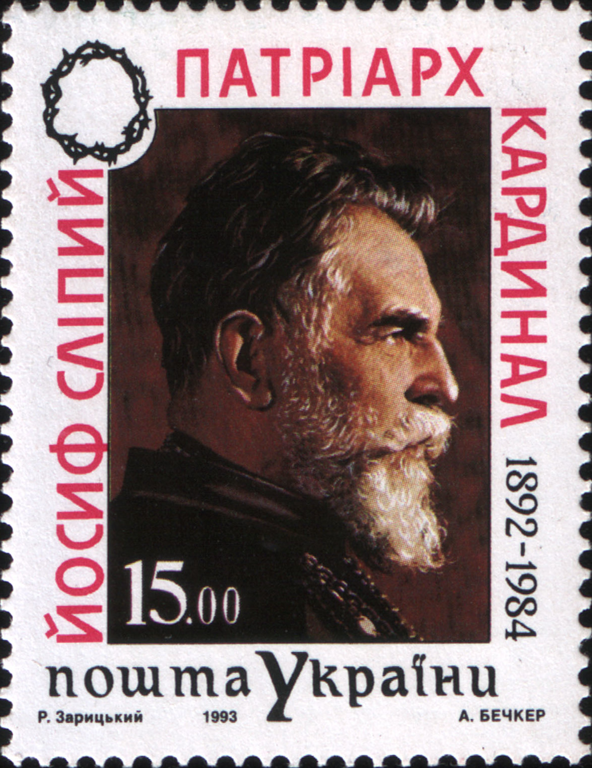 Josyf Slipyj on Stamp of Ukraine